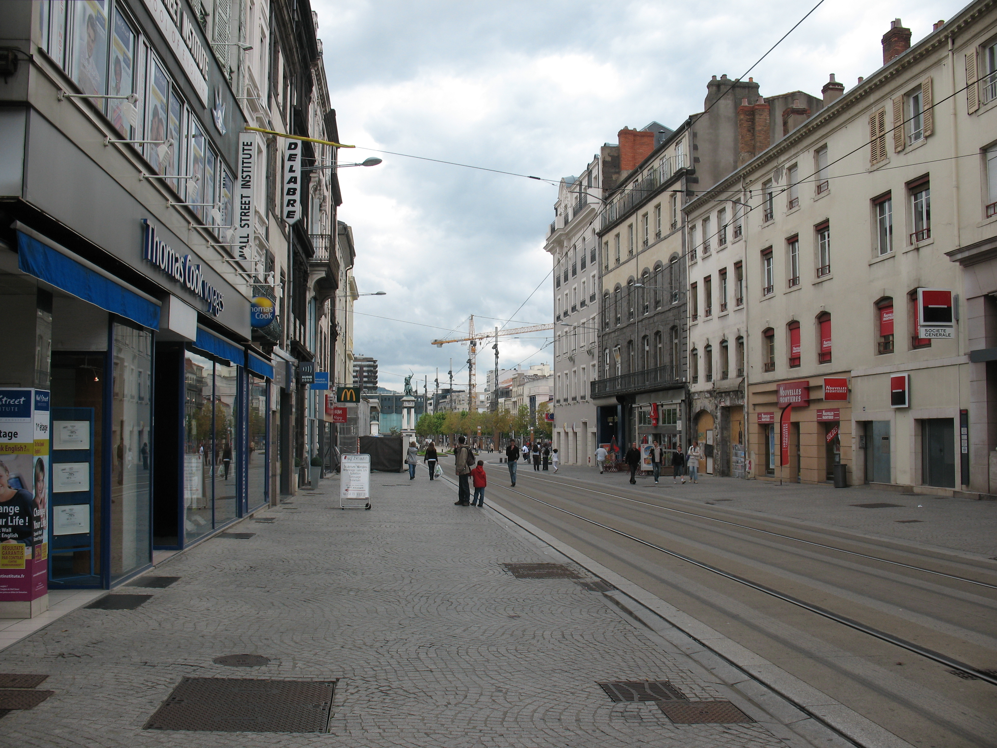 near place jaude